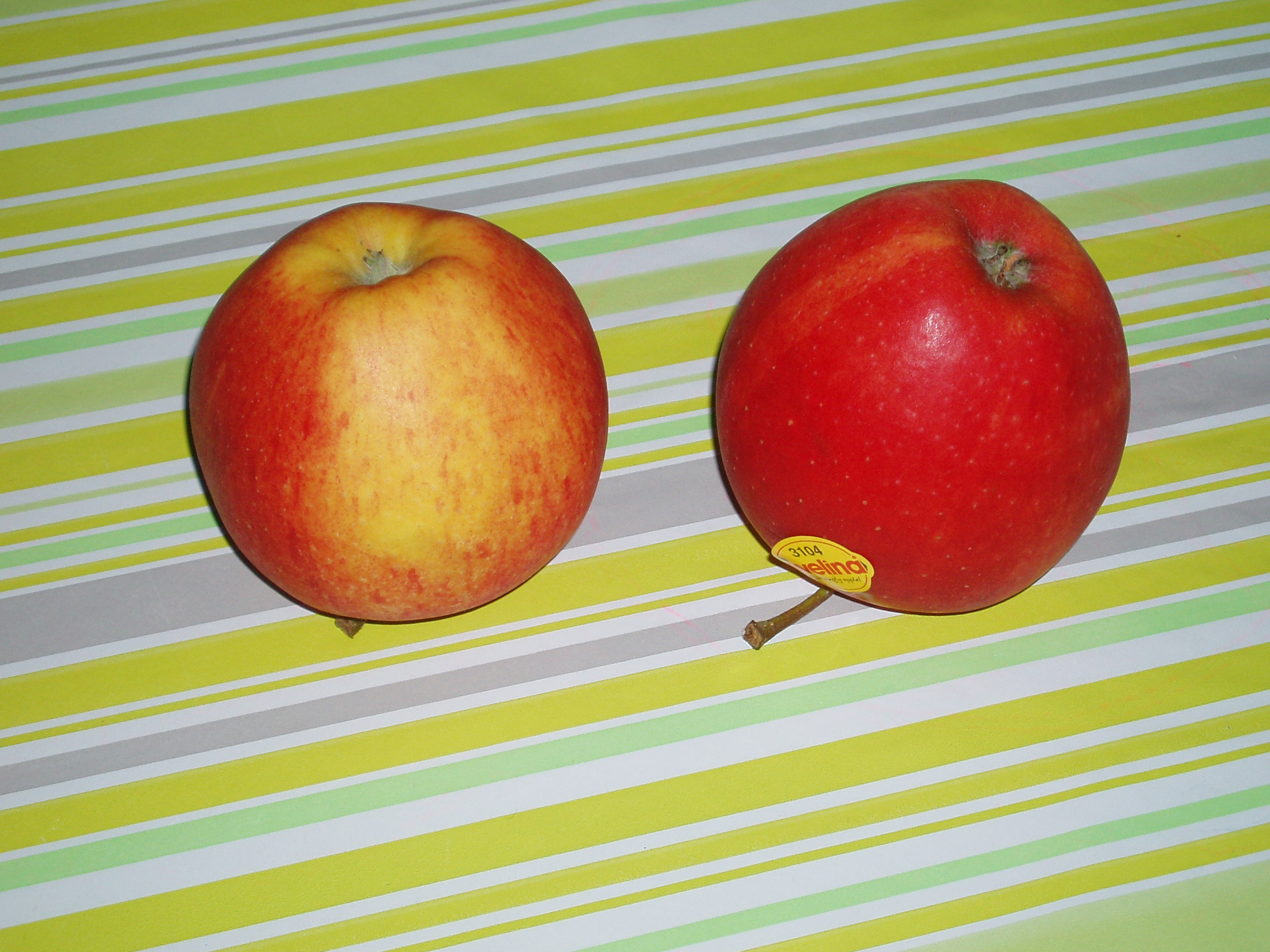 Evelina apples